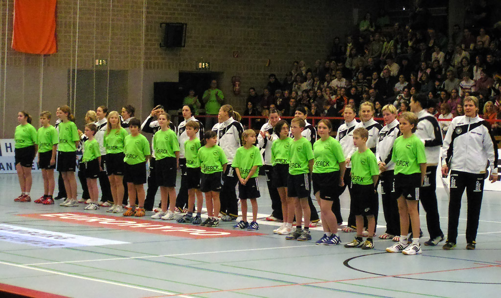 The German national handball team (women), prior an international match vers. Spain